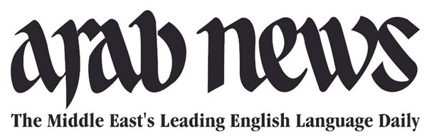 The logo for the Arab News, an English-language newspaper published in Saudi Arabia